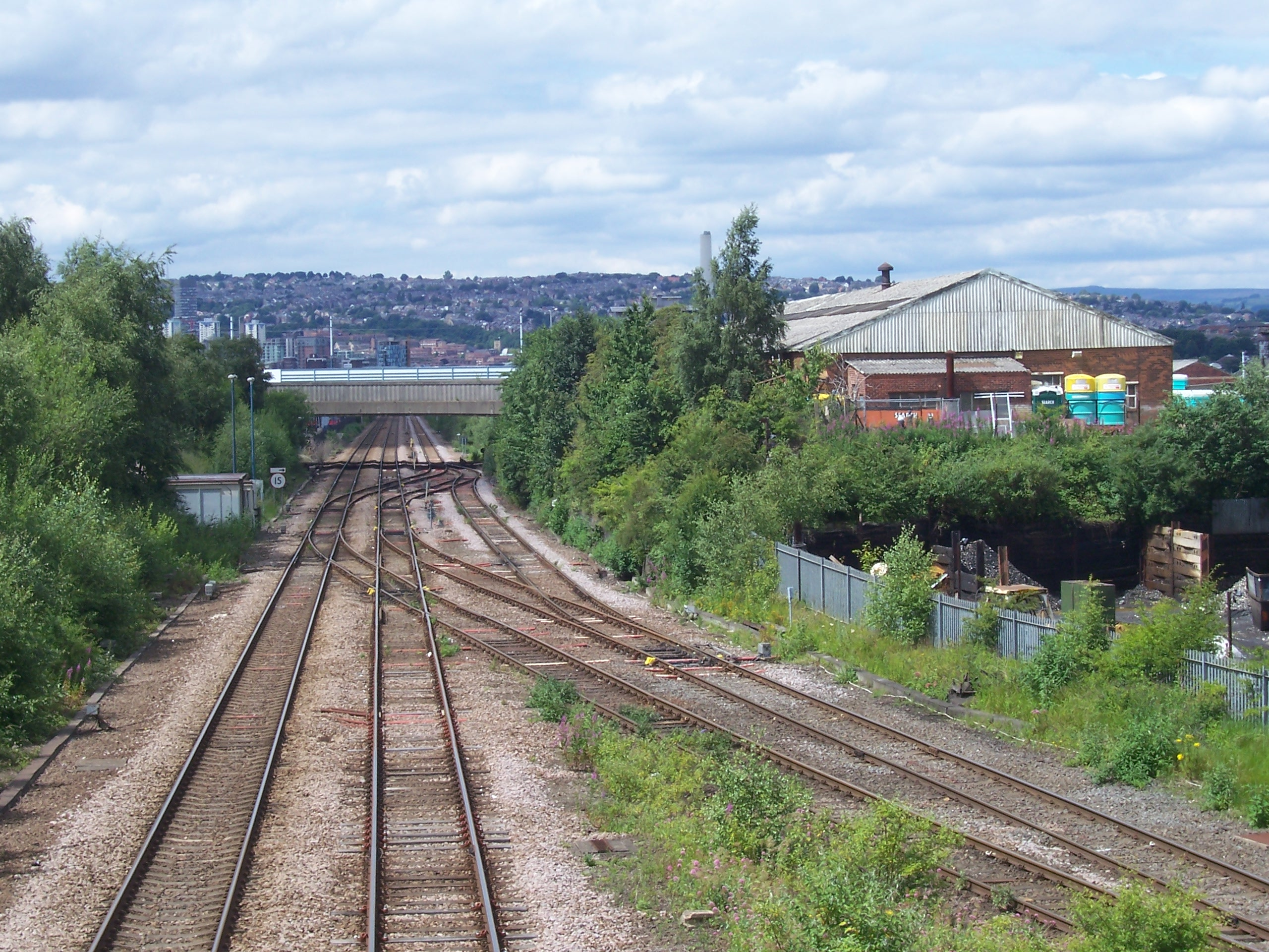 Woodburn Junctionon the old Great Central Railway as seen from a footbridge. This was once a busy junction with coal trains coming out of the South Yorkshire Coalfields from the marshalling yard at Wath, in the direction straight ahead. The line of to the right lead to the marshalling yard at Tinsley. An unusual feature of the 1 to 50000 Ordnance Survey map is the incorrect positioning of the footbridge relative to the track junction. As can be seen from the picture, the junction is to the West of the footbridge, not the other way round. The 1 to 25000 Explorer map is more accurate though.